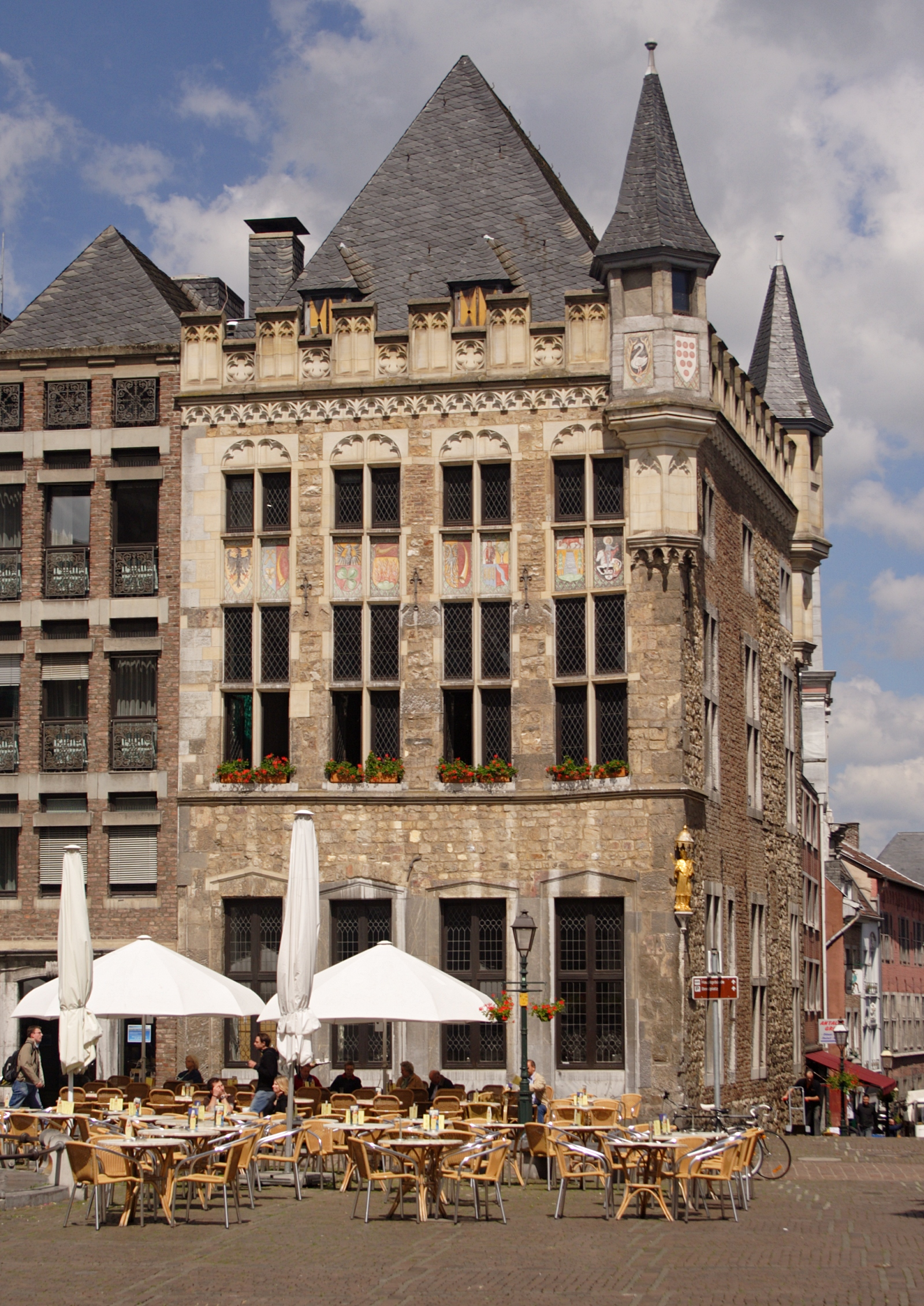 This image shows an ancient building in Aachen, Germany. It is called "Haus Löwenstein" and it was built around 1345.